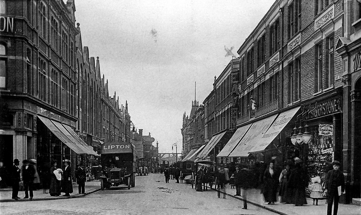 London, Woolwich: View of Hare Street towards Woolwich Ferry. From a 1911 postcard.